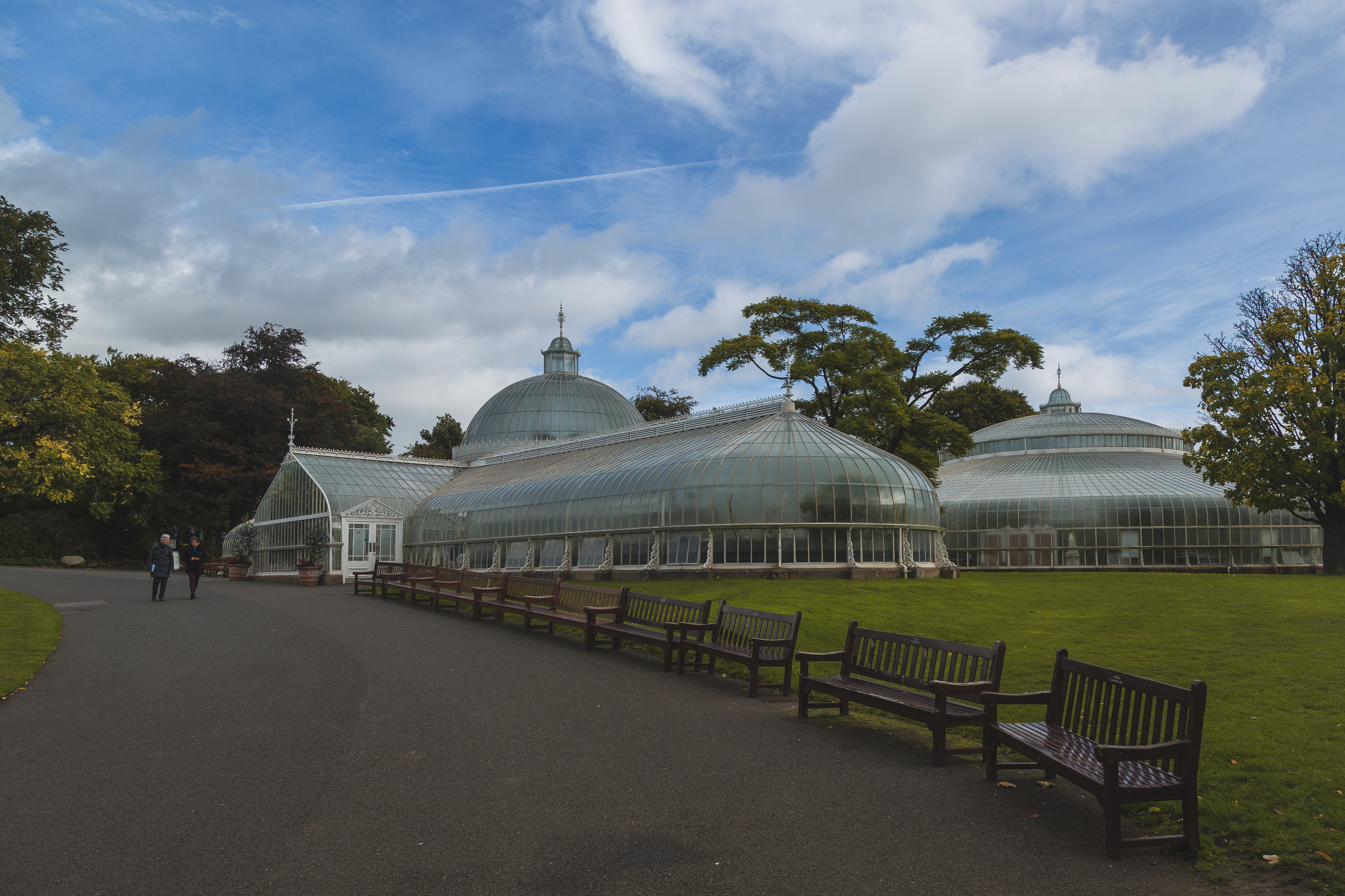 The Kibble Palace in the Glasgow Botanic Gardens